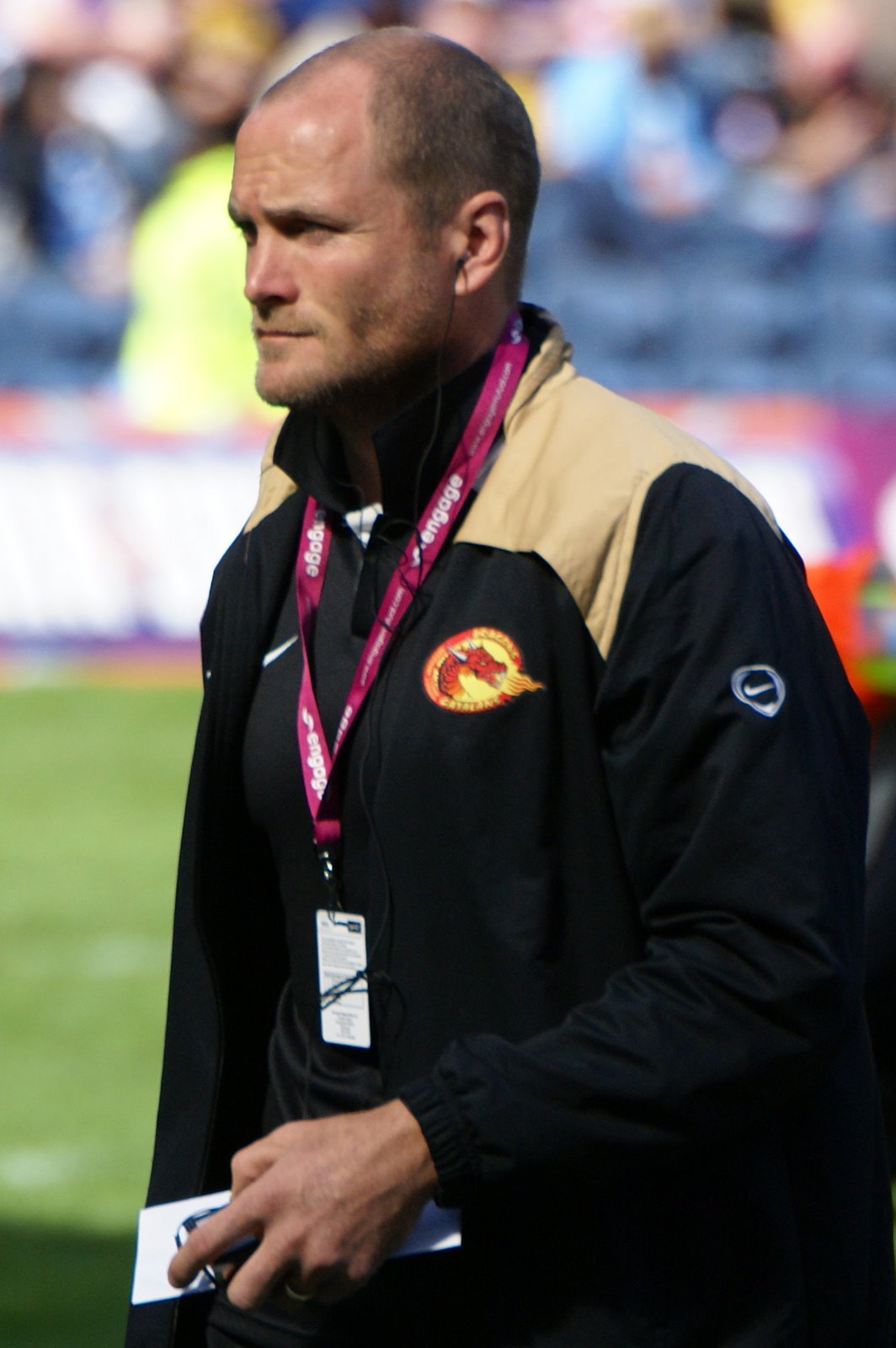 Steven Bell, Australian rugby league player.